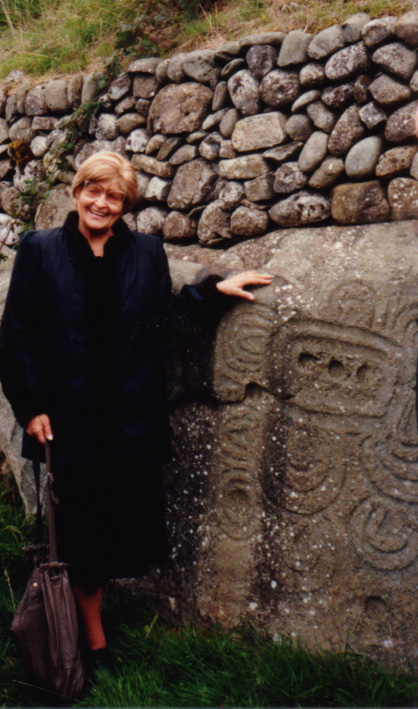 Photograph of Marija Gimbutas at the back of Newgrange, Co. Meath, Ireland. I took this photograph myself on 1989-09-29. Michael Everson